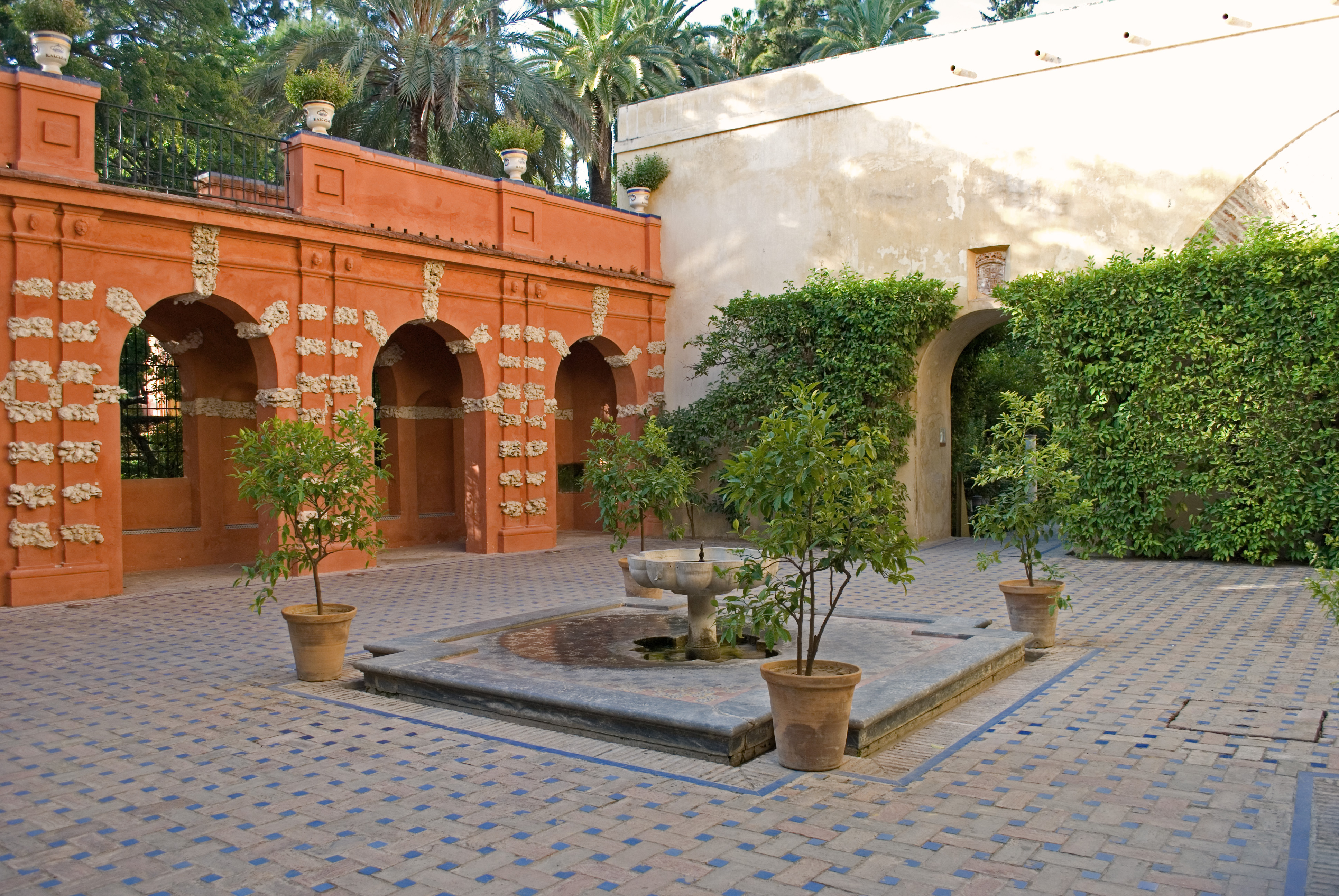 The garden of Troy, Alcazar of Sevilla